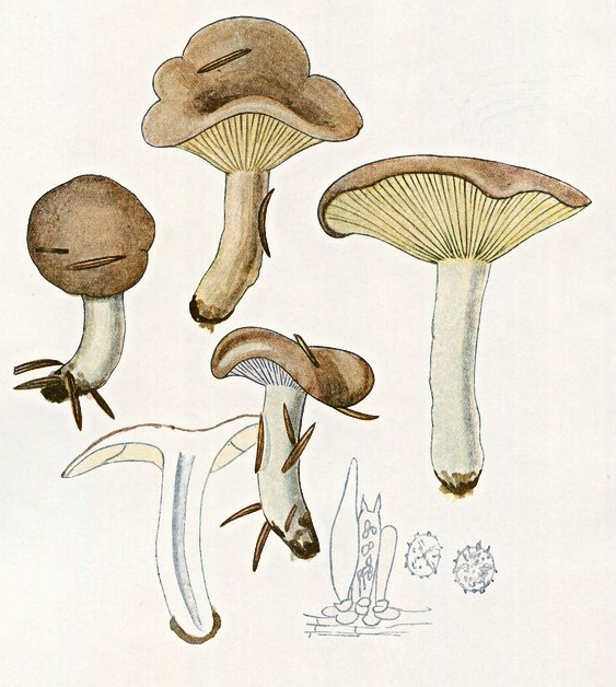 Iconographia Mycologica Vol. 18" Tab. 900: Lactarius fascinans; Copyright © 2001-2012 Gruppo Micologico «G. Bresadola» (This site is hosted by the server of the Science Museum. Description (in Latin)